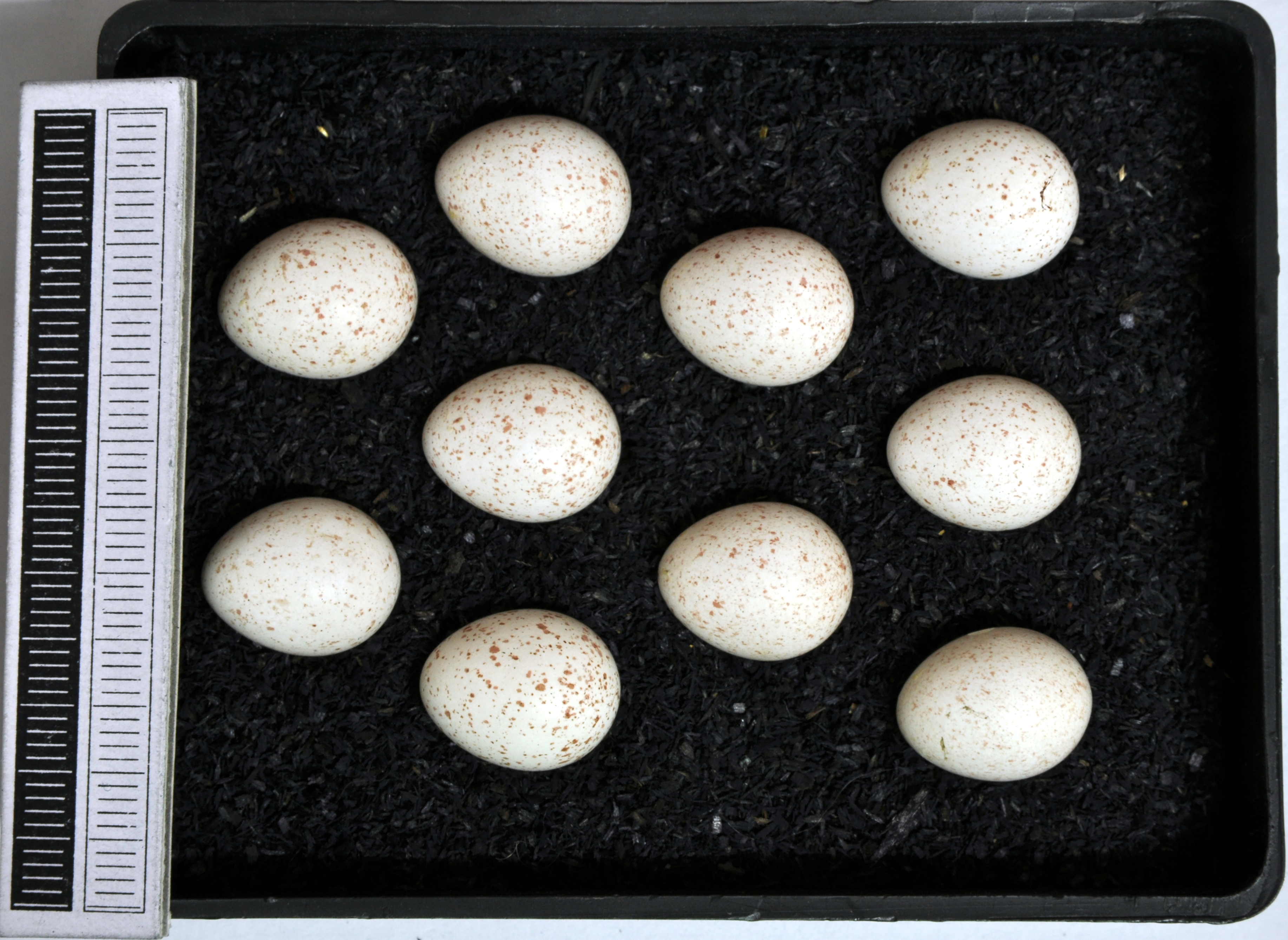 Eurasian blue tit Parus caeruleus, egg, Coll. Museum Wiesbaden, Origin: Aßling, Bavaria, 16.05.1975, leg. W. Abelmann